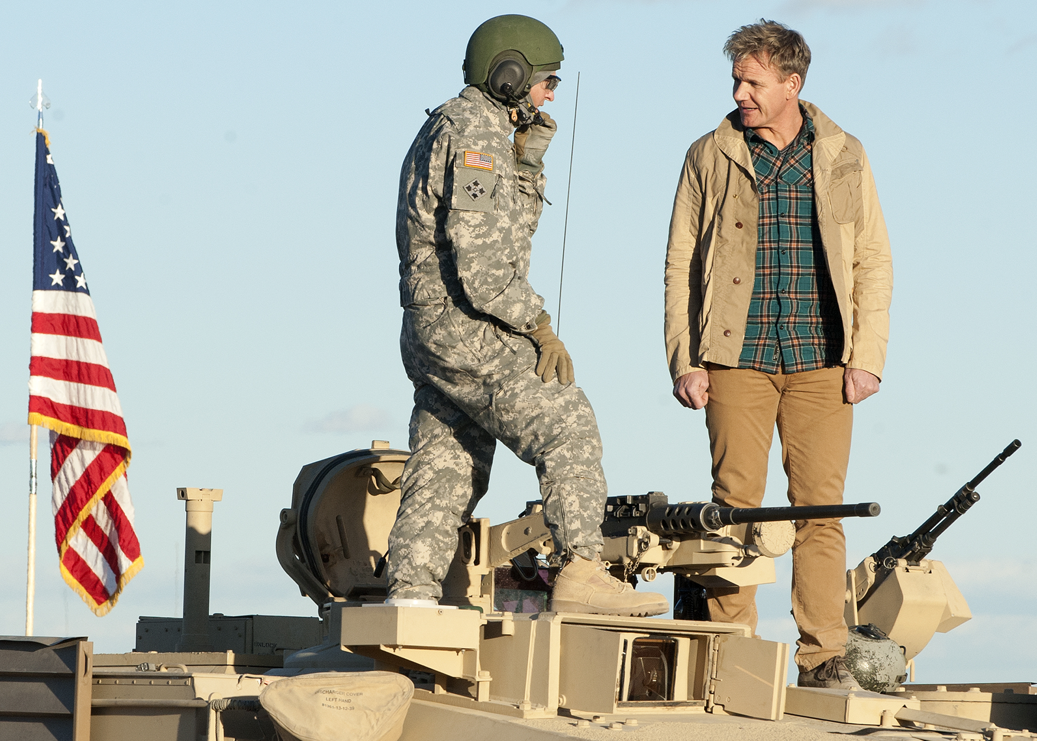 Maj. Gen. Ted Martin, Commanding General National Training Center, welcomes chef Gordon Ramsay to Fort Irwin atop an M1-A1 tank